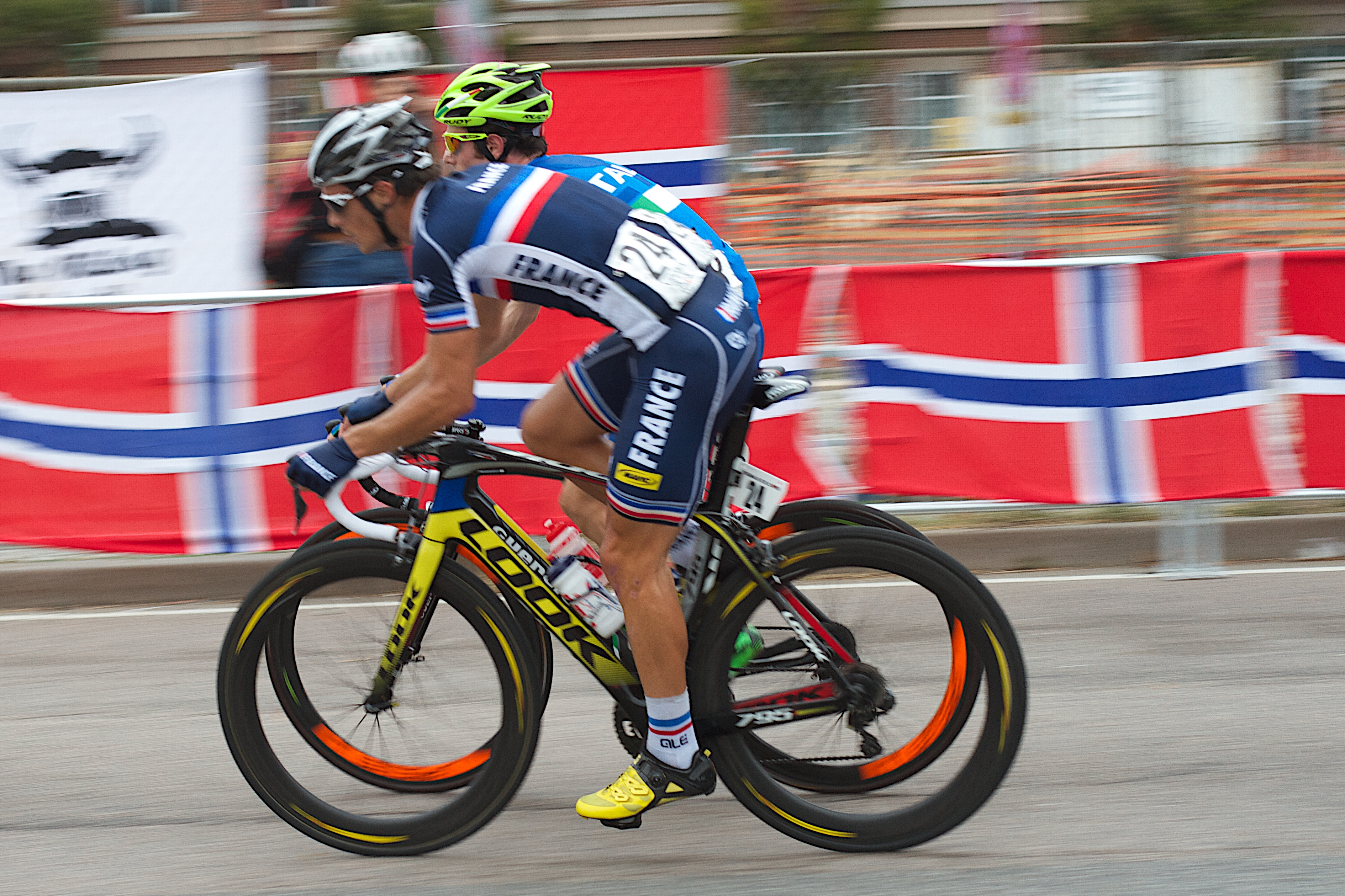 UCI Road Championship Races, Richmond VA 2015 UCI Road World Championships, in Richmond, United States, men's under-23 road race